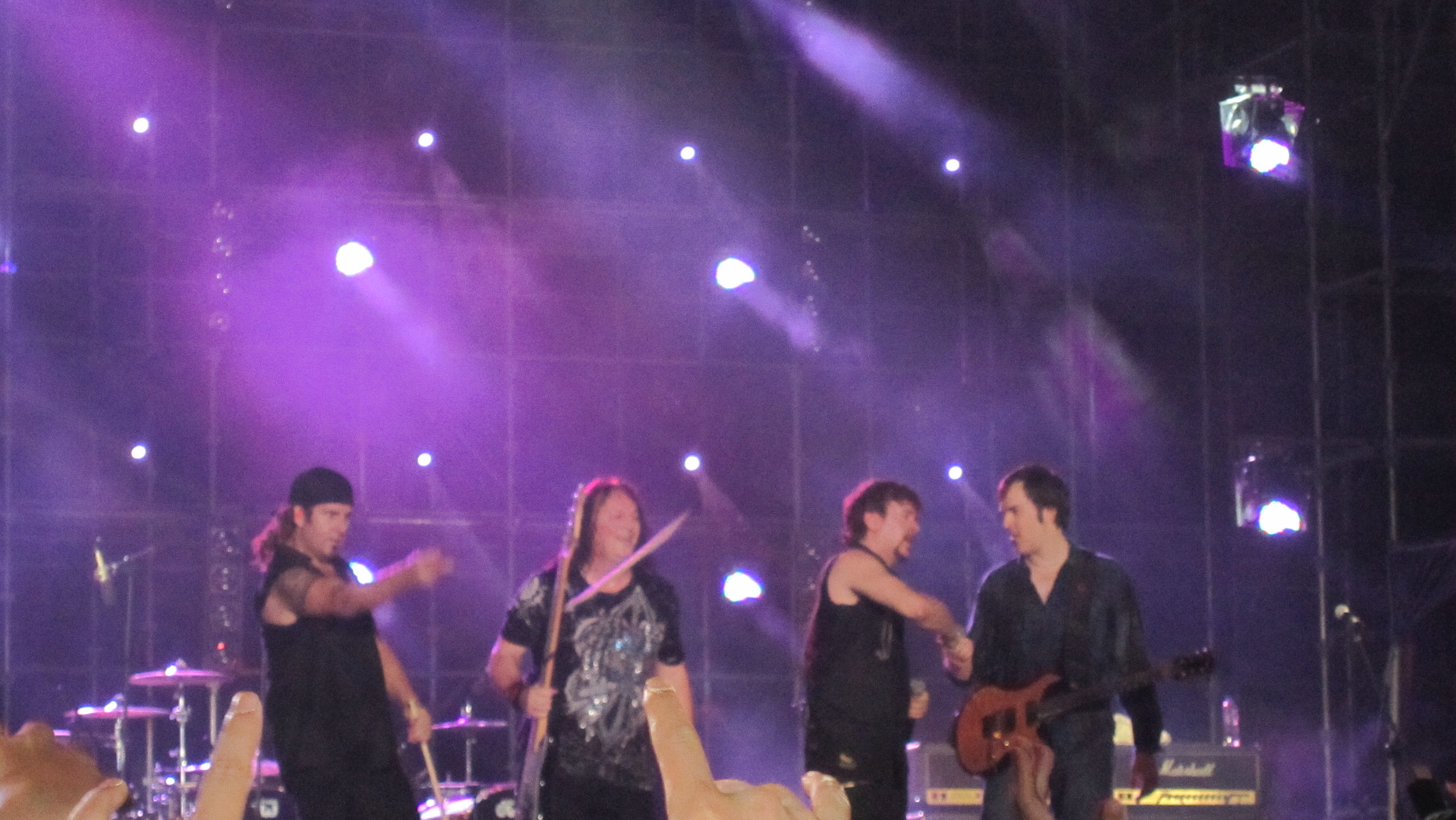 Firehouse in Busan Rock Festival